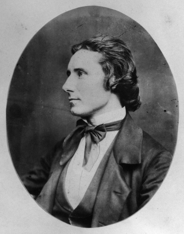 Photograph of Francis Talfourd (1828–1862), English dramatist.